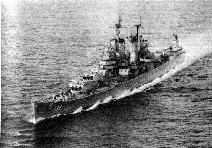 The U.S. Navy heavy cruiser USS Macon (CA-132) underway, circa 1960. The photo was taken after the retirement of the Regulus missle, as the SPQ-2 radar on the aft mast has been removed.